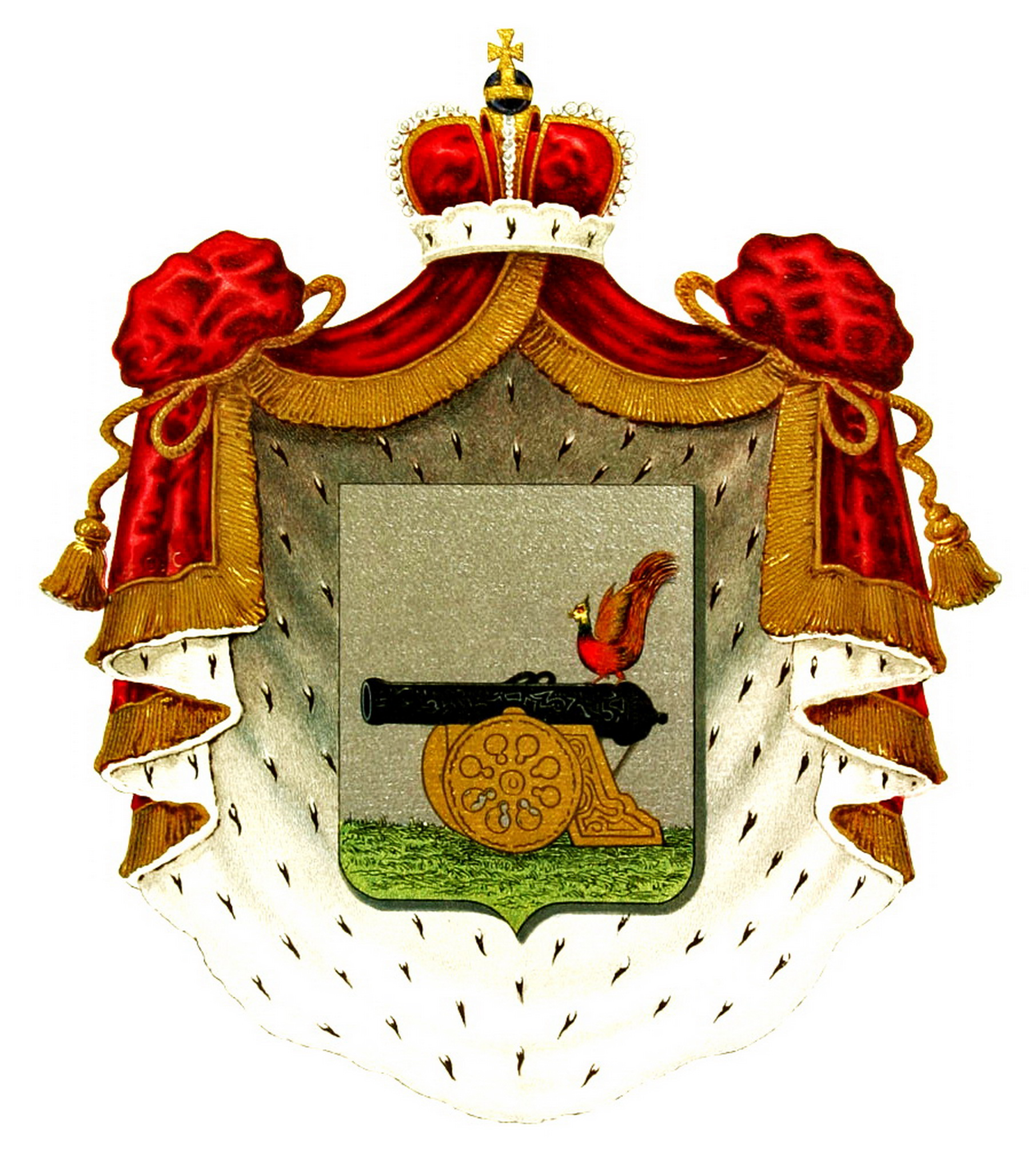 Coat of Arms of Kropotkin